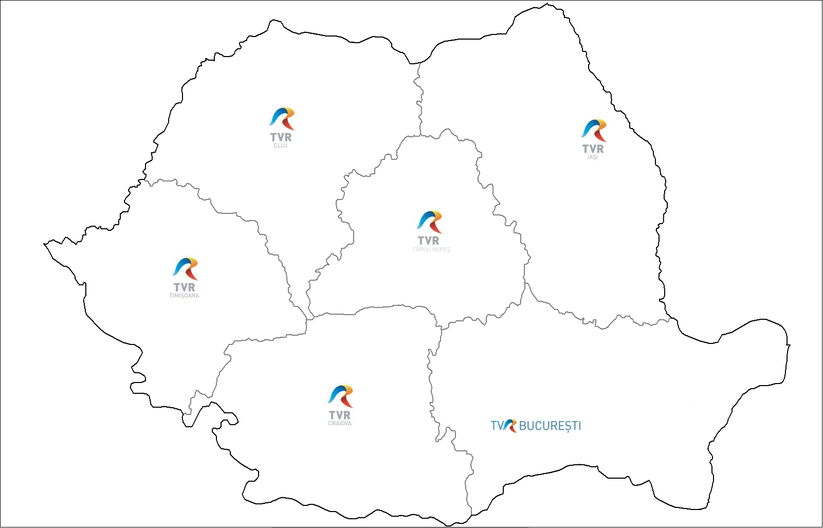 The map of Romania and the logos of the five regional studios of the TVR and the borders of the area covered by the regional studios.